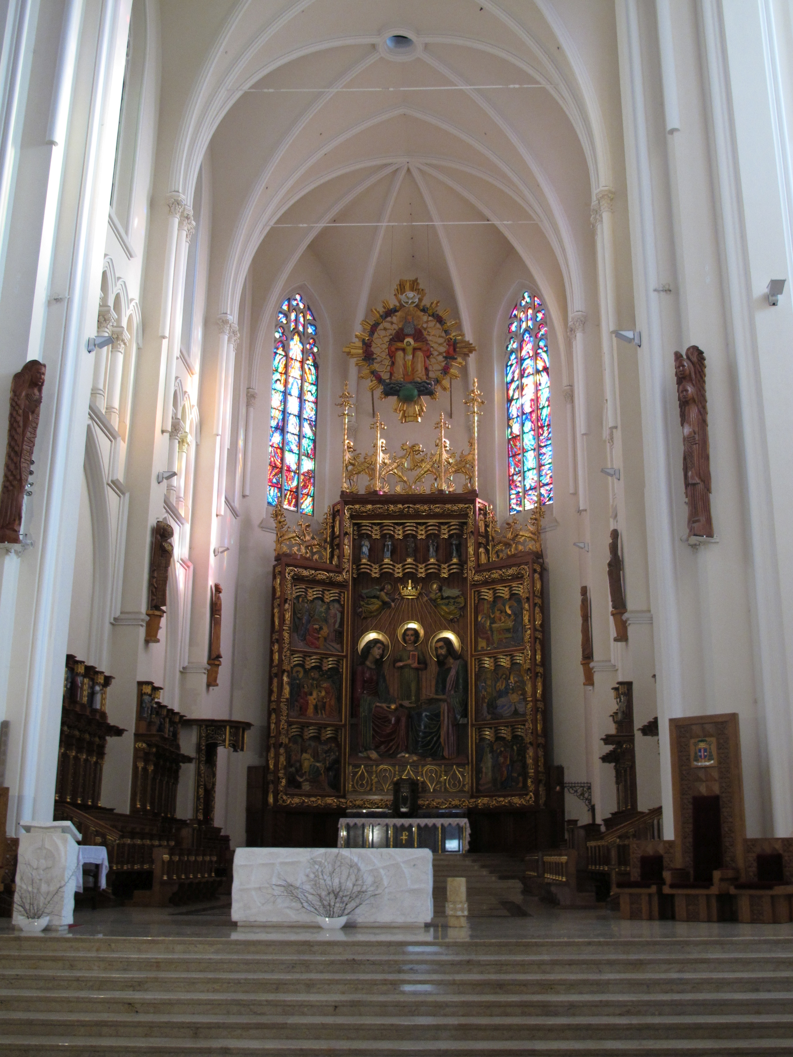 Częstochowa - Holy Family archcathedral